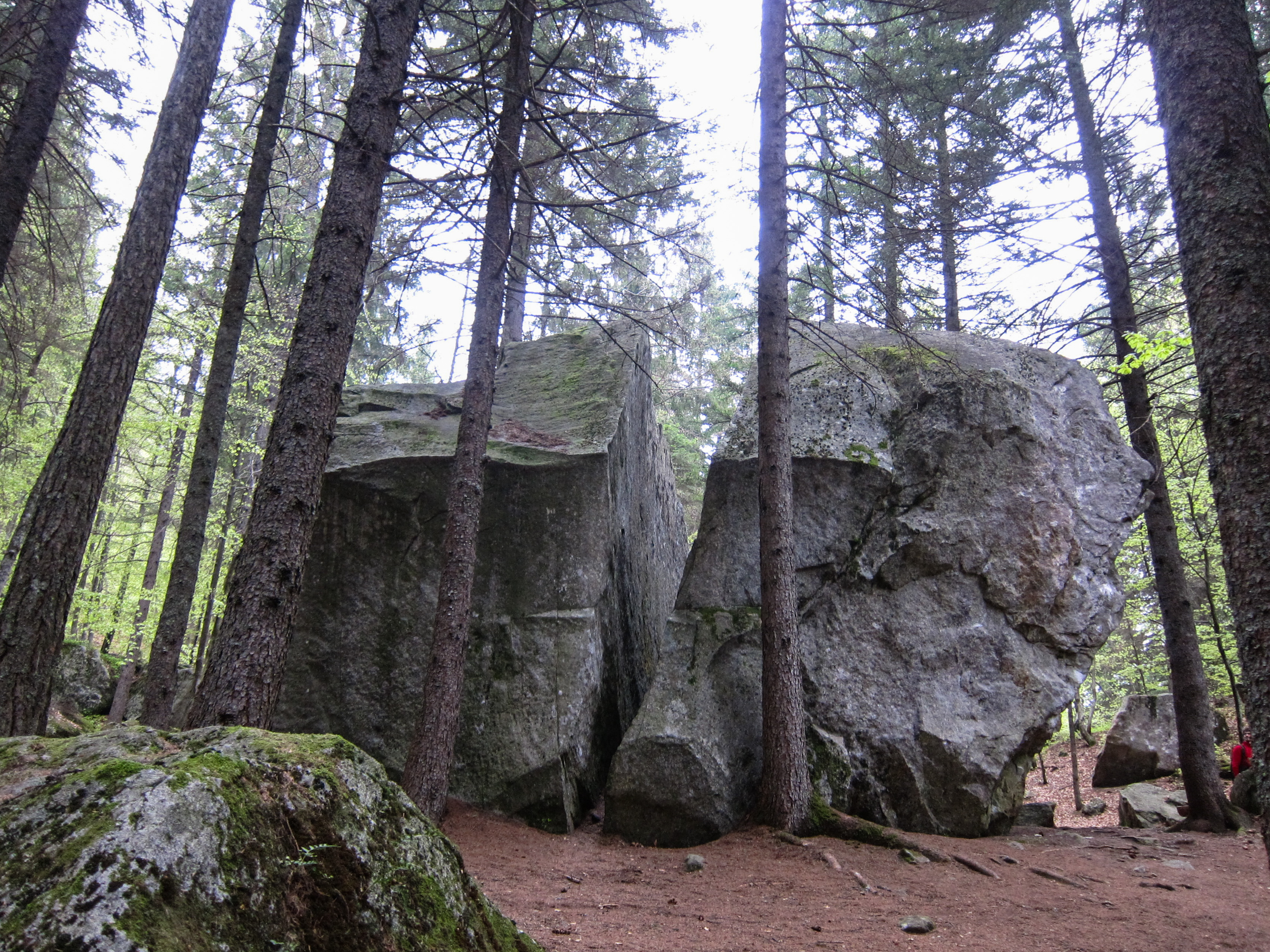 View of the most famous boulder in the woodland of Foppiano. Foppiano di Crodo (Verbano-Cusio-Ossola, Piemonte - Italia) is famous for its boulders among climbers and this particular rock is the symbol of the area. Picture taken on the 24th of April in 2017.